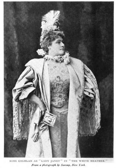 Photograph of stage actress Rose Coghlan in the role of the Lady Janet in the 1897 New York production of the play "The White Heather". Appearing in Munsey's Magazine, June 1898,p. 460